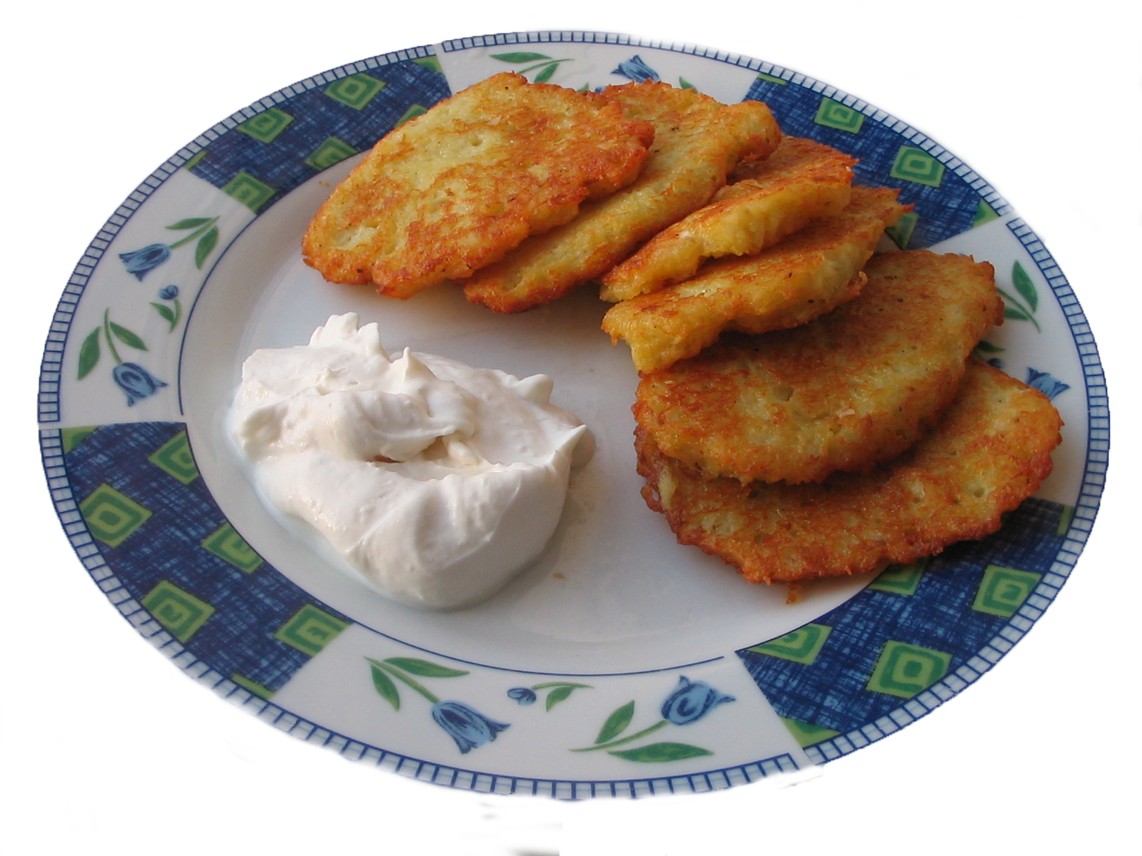 Latkes with smetana.